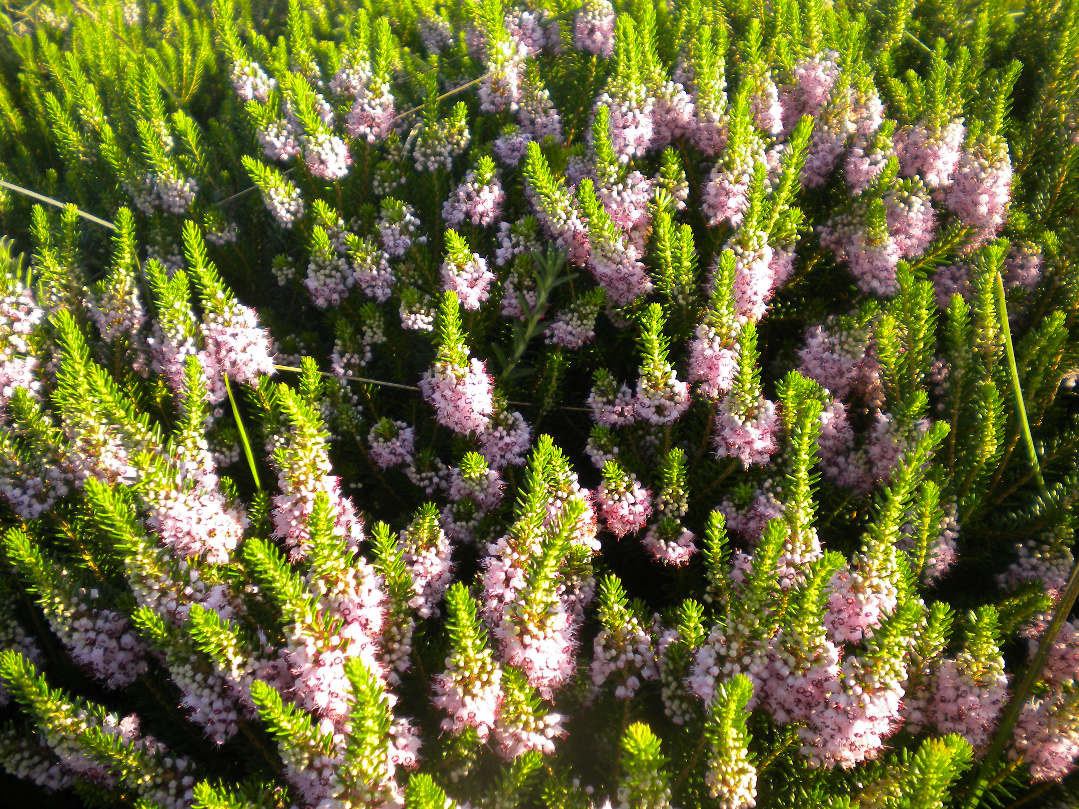 Heath of Erica vagans in Ribadeo (Lugo, Spain).